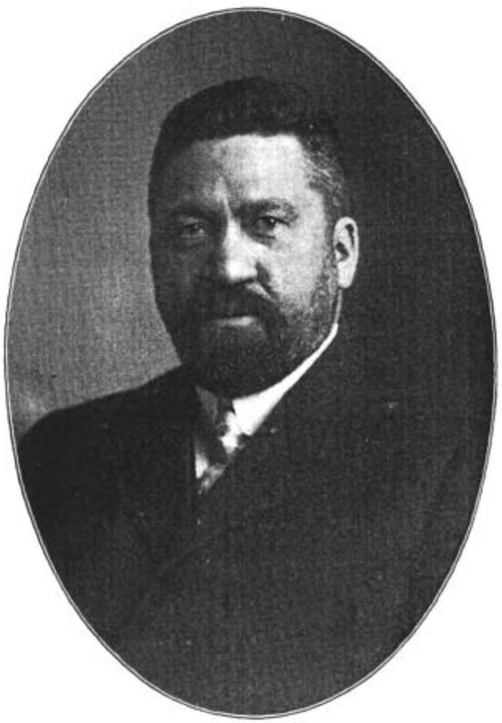 Michael E. Burke (Wisconsin Congressman)